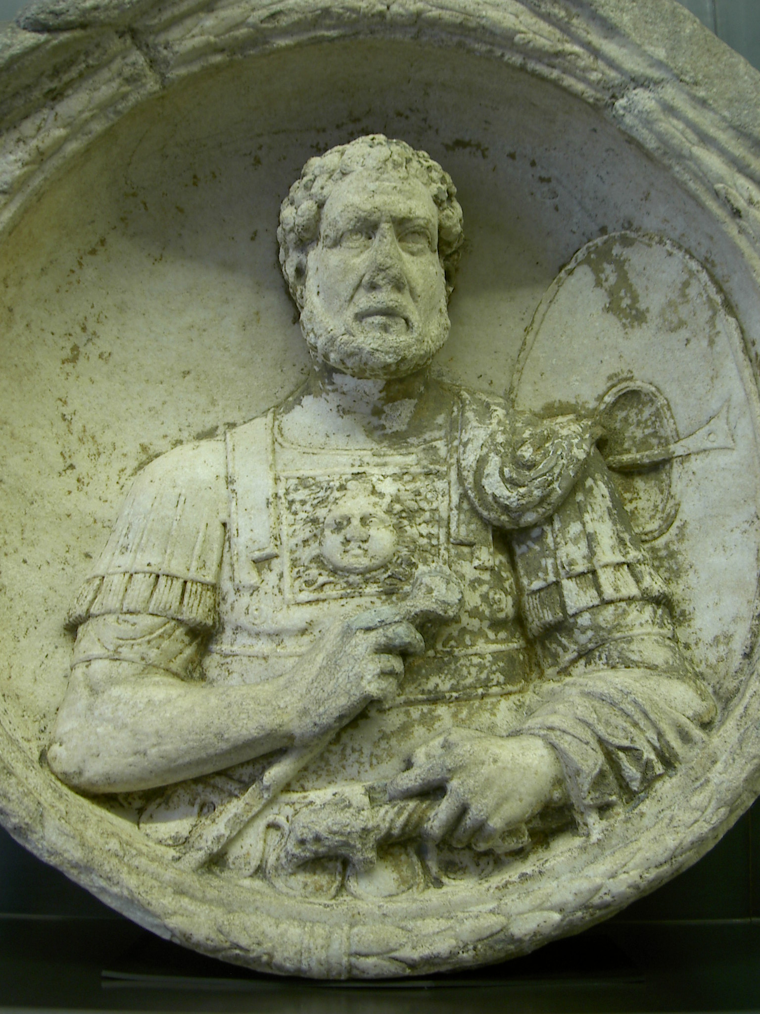 Roman Centurio on a portrait medaillon of his grave, 2nd century A.D.